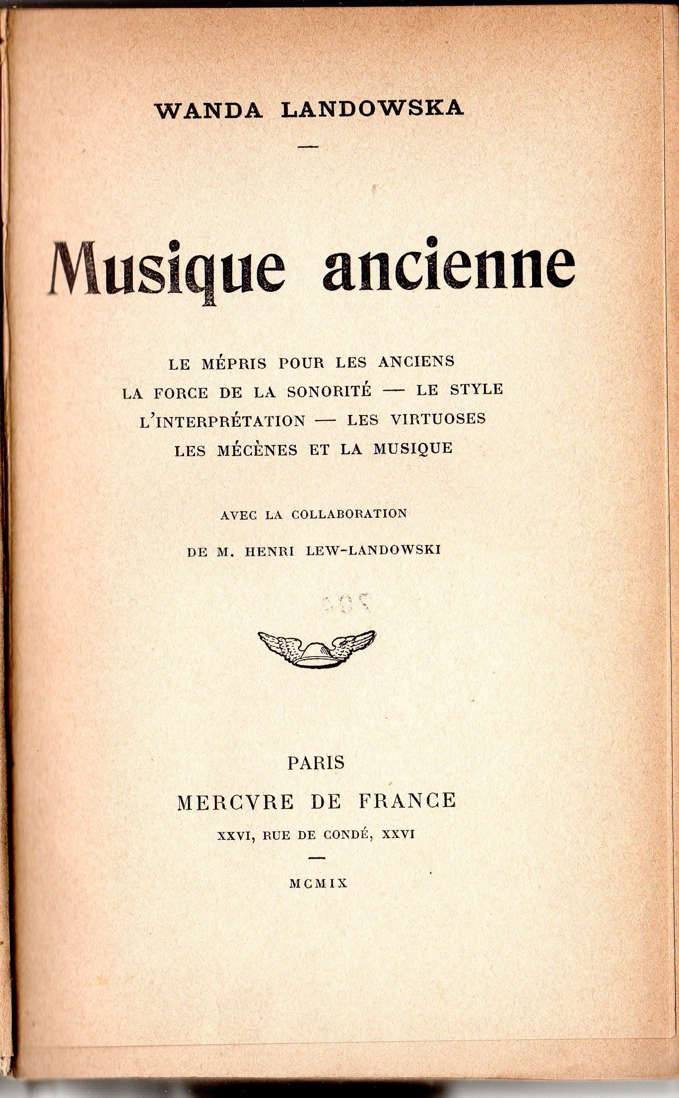 Wanda Landowska's book title page